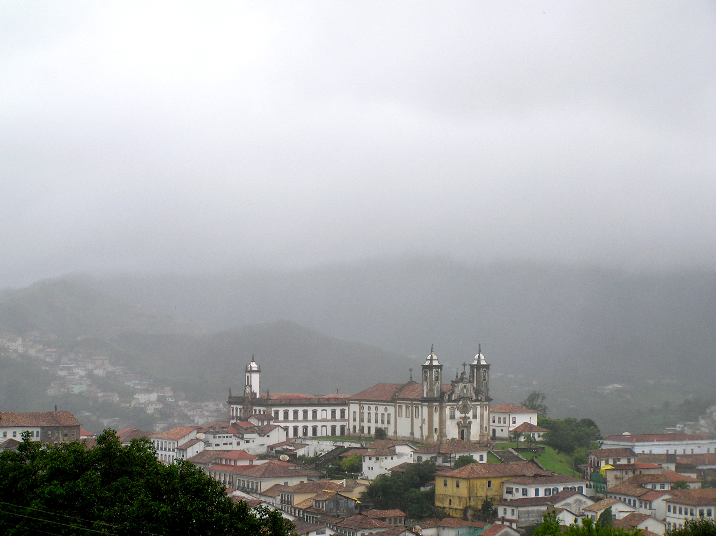 Igreja do Carmo (Church of Carmo, center, its two belfries) and Museu da Inconfidência(left side, one belfry), view of Ouro Preto.